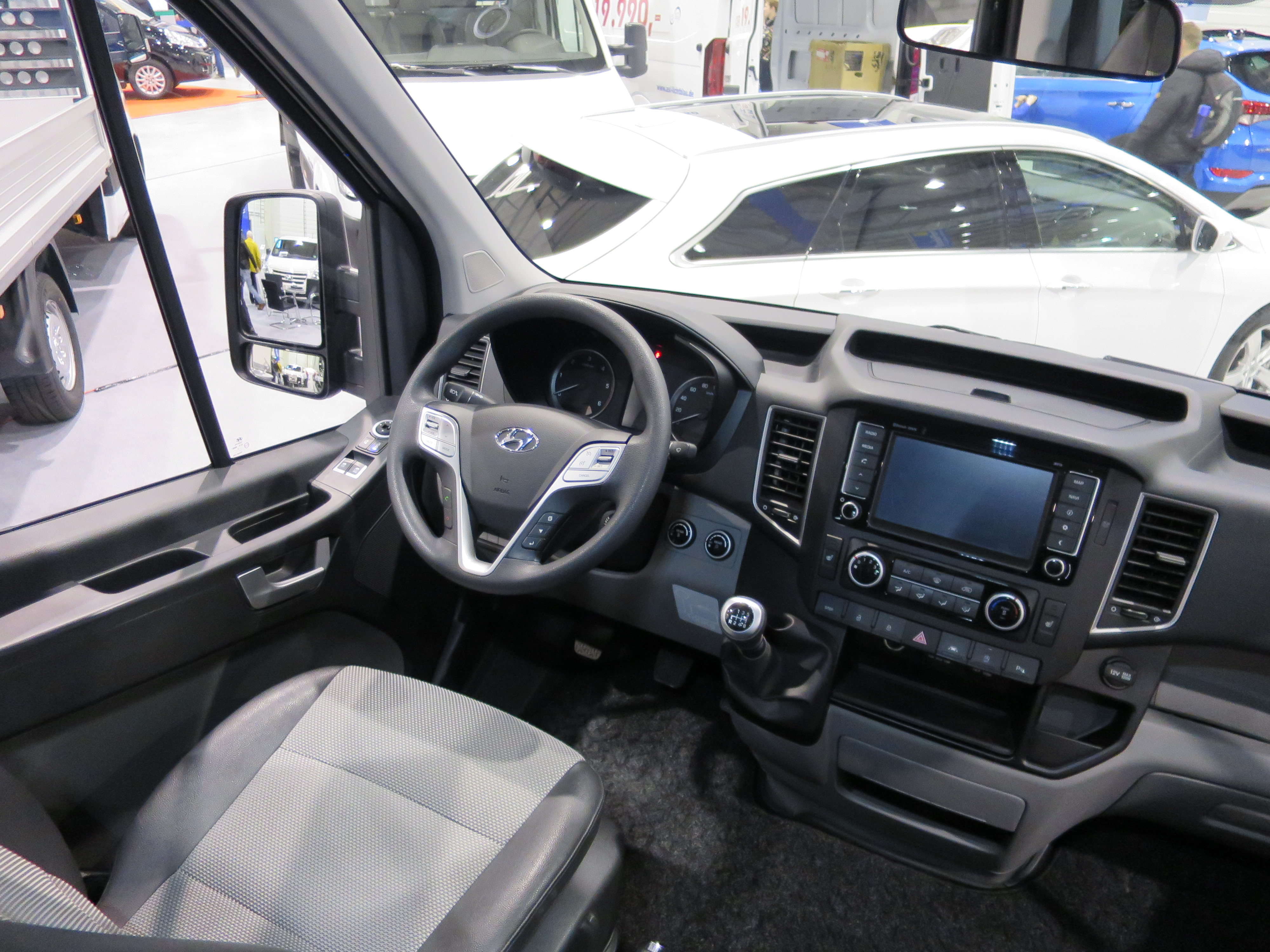 ITB Berlin 2016 The making of this document was supported by Wikimedia Polska Association, within Wikigrant no. WG 2016-9. English | polski | +/−